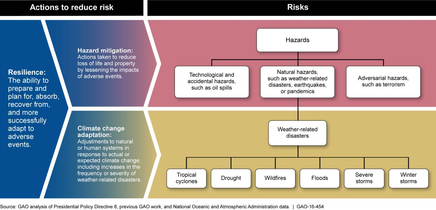 This image is excerpted from a U.S. GAO report: CLIMATE CHANGE: Selected Governments Have Approached Adaptation through Laws and Long-Term Plans